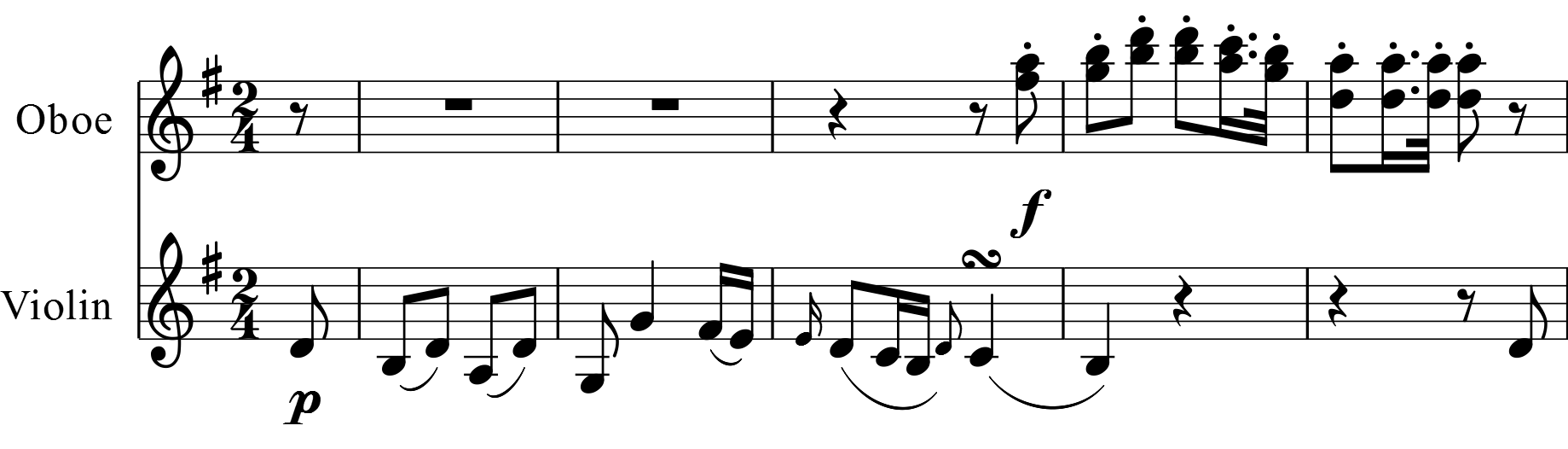 Joseph Haydn, Symphony No. 60, second movement, bar 1-5, Oboe and violin